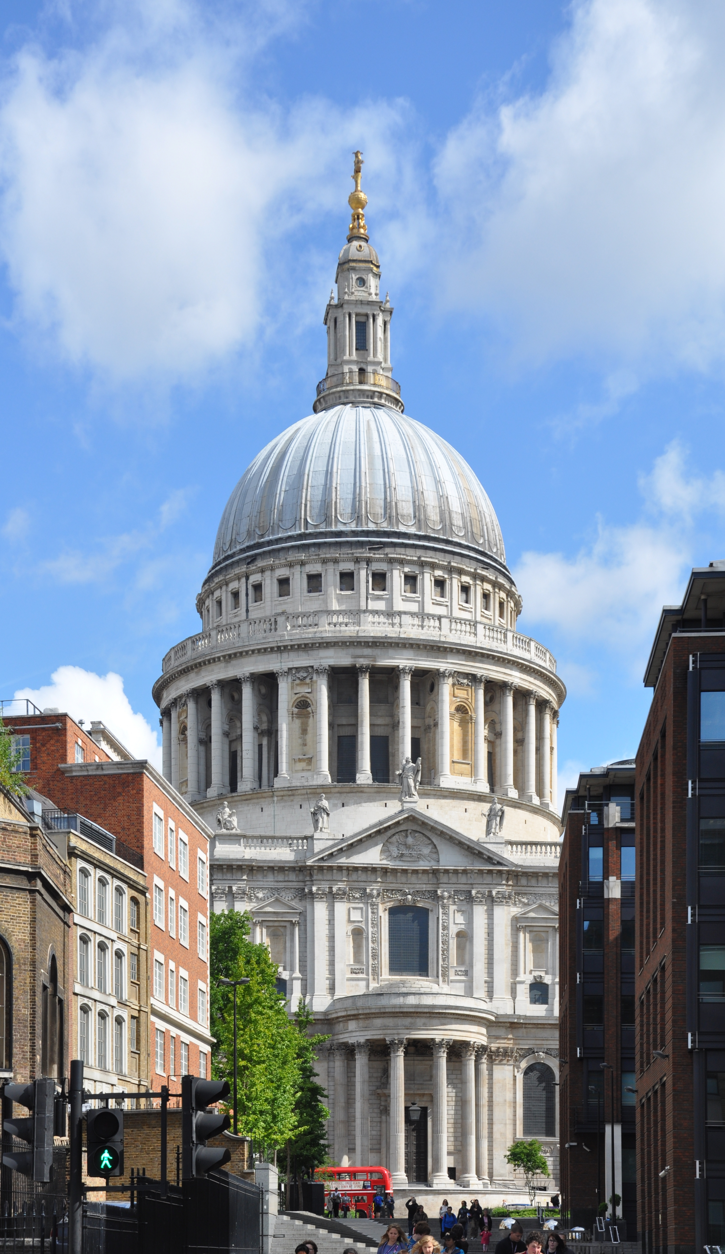 London, St. Paul's Cathedral